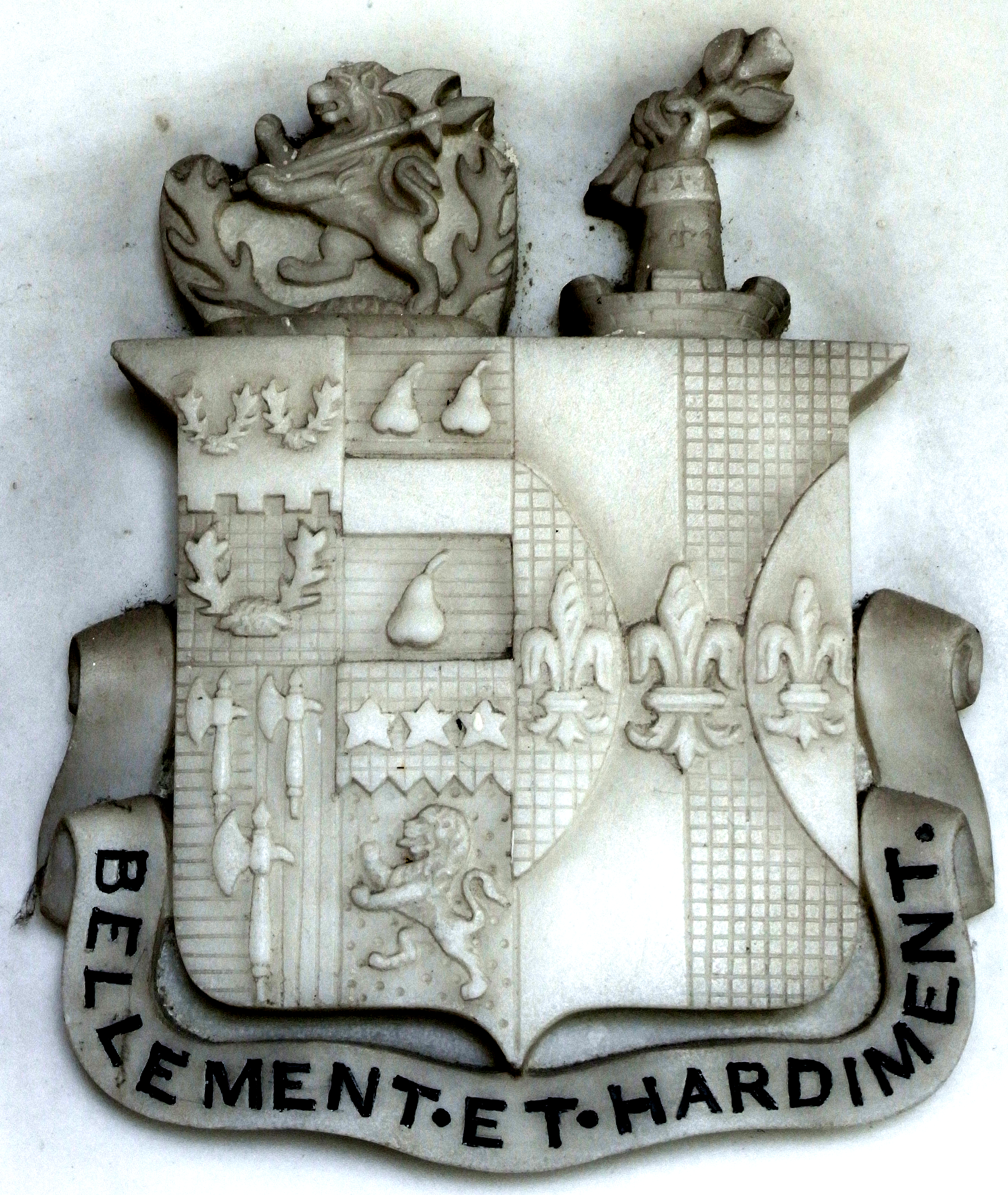 Heraldic escutcheon, detail from mural monument in Abbotsham Church, Devon, to Lewis William Buck (1784-1858), MP, of Moreton House, (in parish of Abbotsham?), near Bideford and of Hartland Abbey, Devon. The arms shown are Baron: Quarterly of four: 1st: Per fess embattled argent and sable, three buck's attires each fixed to the scalp counterchanged (Buck); 2nd: Azure, a fess argent between three pears pendant or (Orchard of Hartland Abbey) (Lysons[1]); 3rd: Per pale ... and ... three battle axes (similar to Dennis of Orleigh)?; 4th: Or, a lion rampant sable on a chief indented of the second three mullets argent (Pawley of Gunwin in Lelant; his great-grandfather John Buck (d.1745) married Judith Pawley (d.1739), only child and heiress of William Pawley of Bideford (Vivian, Lt.Col. J.L., (Ed.) The Visitation of the County of Devon: Comprising the Heralds' Visitations of 1531, 1564 & 1620, Exeter, 1895, p.723)(Lysons, Magna Britannia, Vol.6: Devon, 1822, Extinct Gentry Families[2]) impaling Femme: per pale argent and sable, a fleur-de-lys between two flaunches each charged with a fleur-de-lys all counterchanged (Robbins, his wife Anne Robbins) Crests: 1st: (Buck); 2nd: A dexter cubit arm issuing from a mural crown, habited azure adorned with three fleur-de-lis or, 1 and 2, the cuff turned up ermine holding in the hand proper a (branch of a pear-tree attached thereto a) pear as in the field (Orchard) (Lysons[3]) Motto: Bellement et Hardiment ("Beautifully and Bravely")